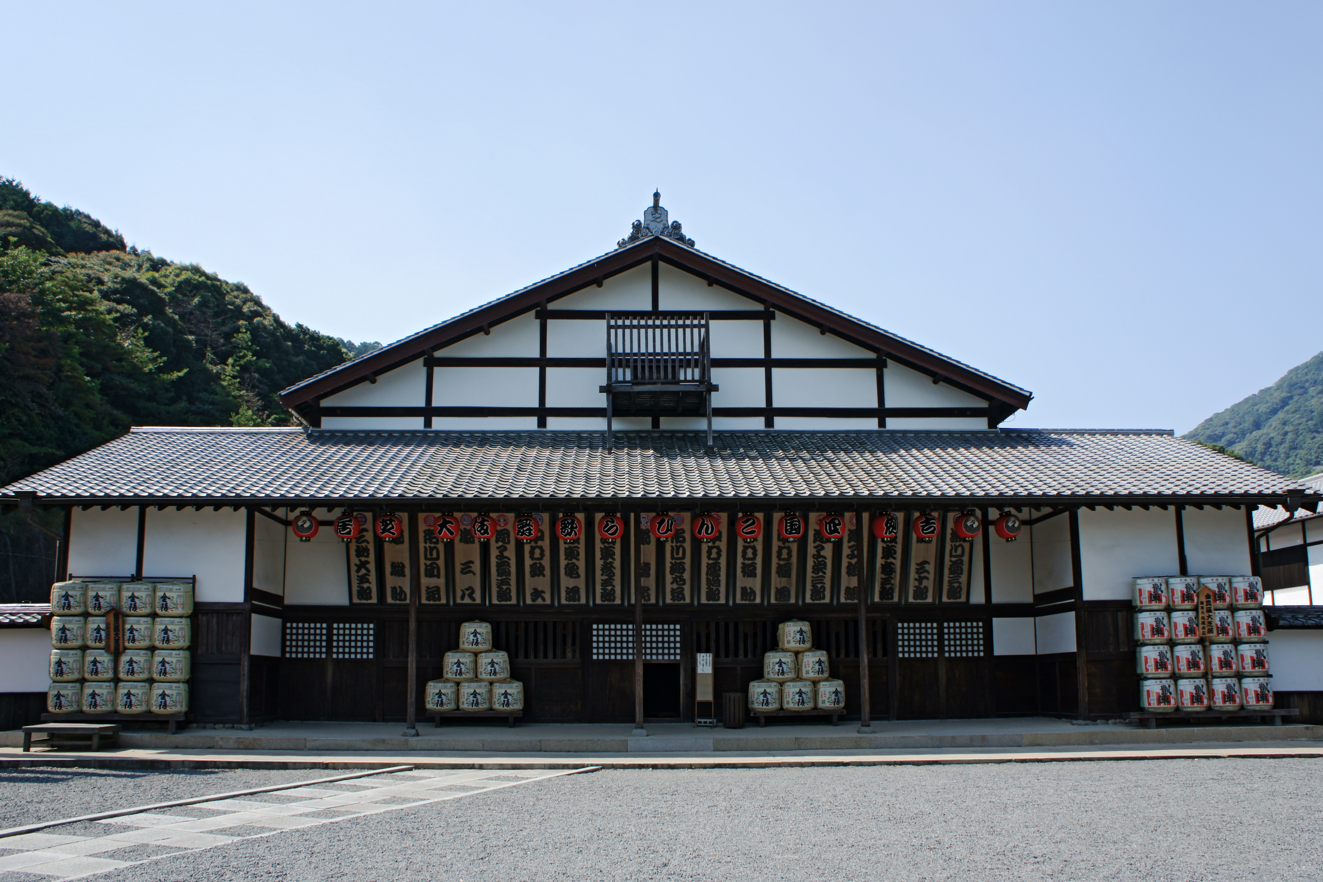 Former Konpira-ooshibai in Kotohira, Kagawa prefecture, Japan.